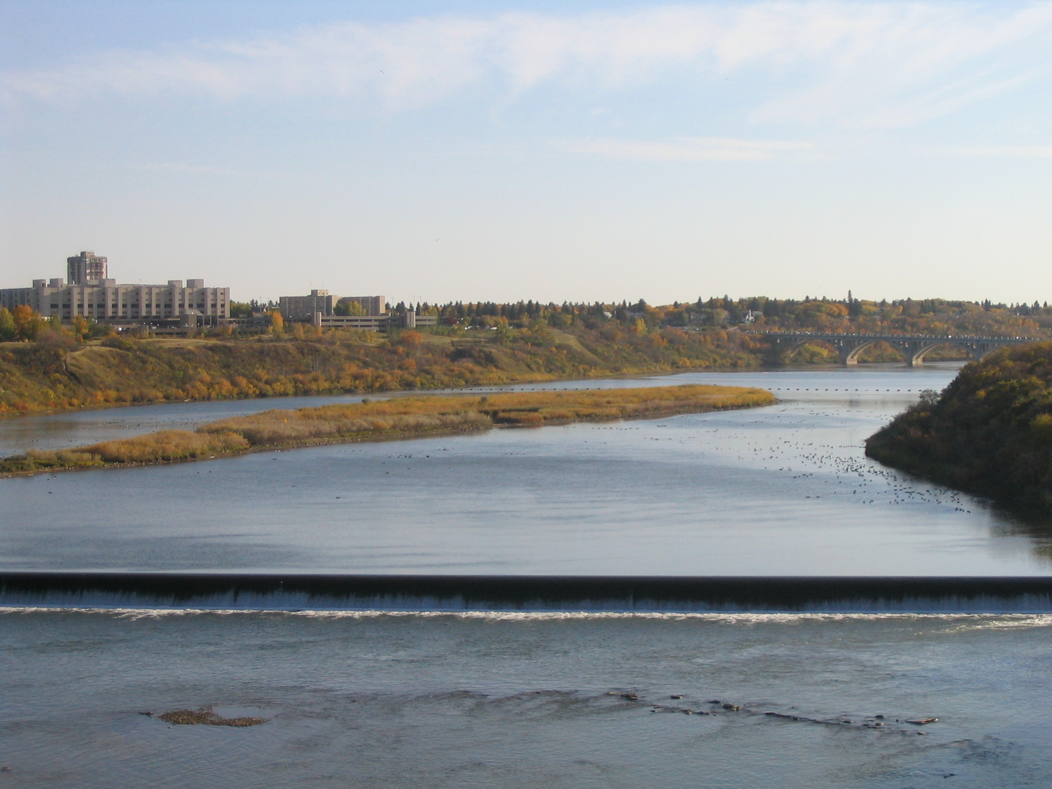 Saskatchewan River Weir and Broadway Bridge in the background.IMG_1267